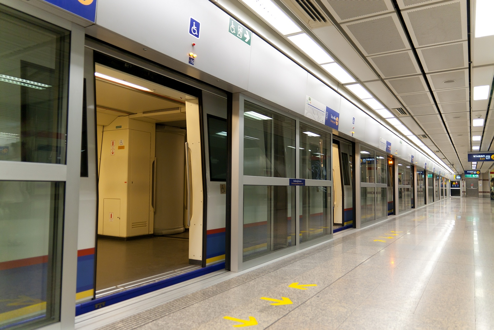 Hua Lampong MRT station. Bangkok, Thailand.